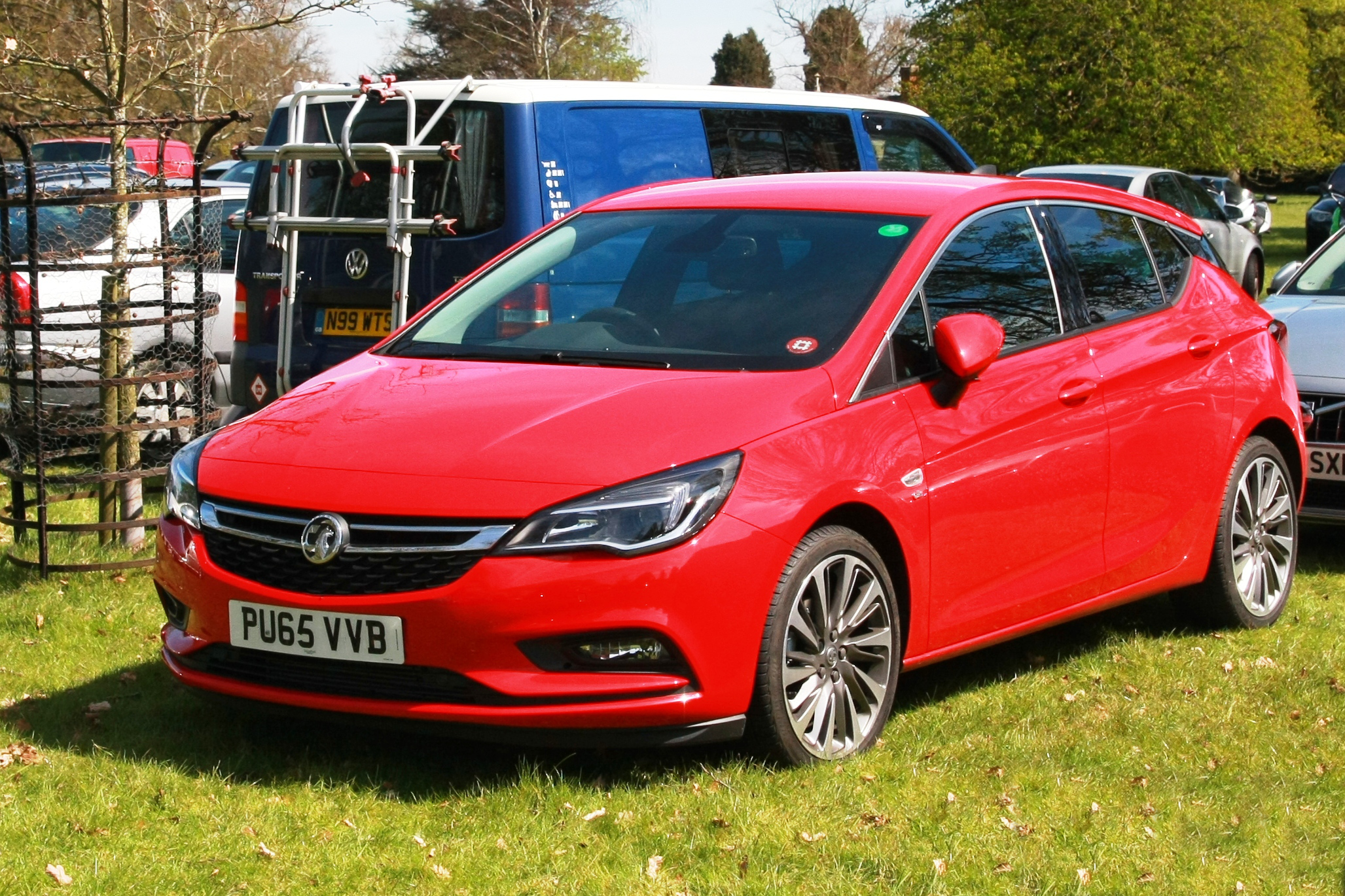 Vauxhall Astra Mk6 in north Bedfordshire License plate has been changed for anonymisation purposes but year code remains correct